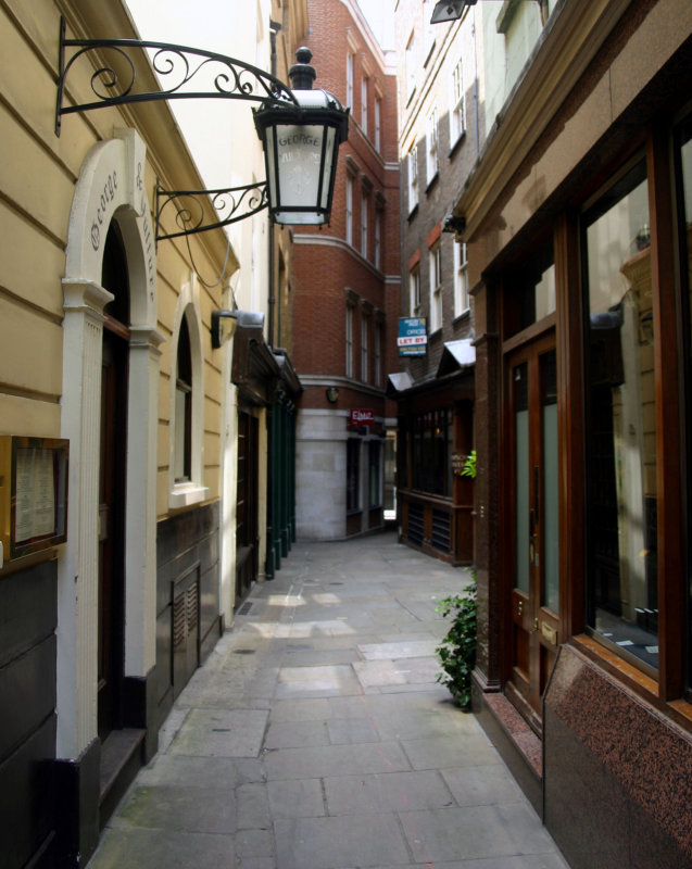 The George and Vulture restaurant in Castle Court, EC3, City of London. Formerly a pub this was built in the 18th Century and refronted in the early 19th Century